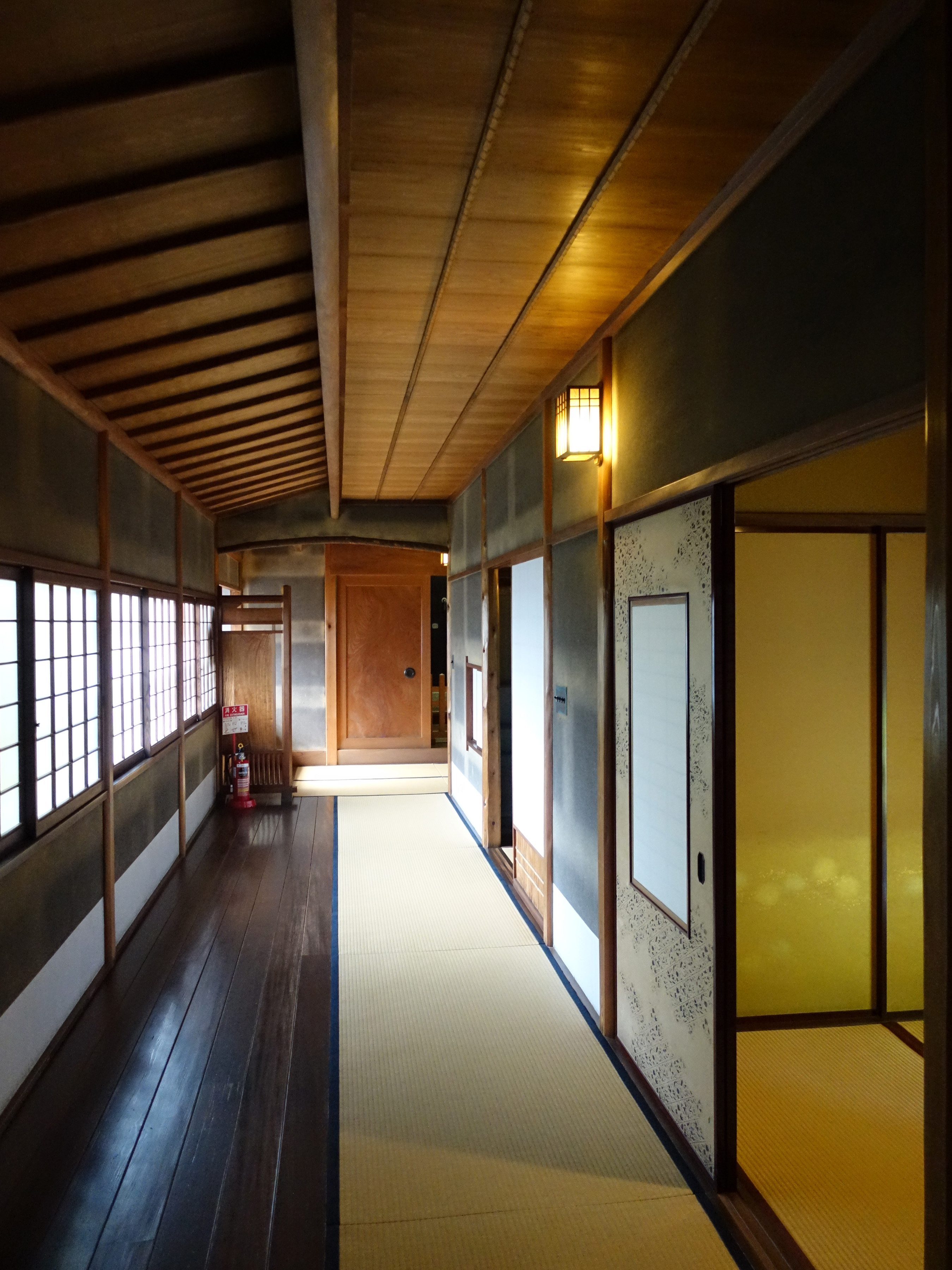 Toyama Memorial Museum in Kawajima Town, Saitama Prefecture, Japan